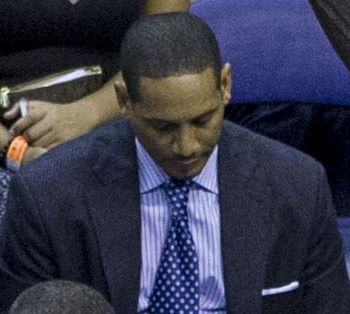 Los Angeles Clippers assistant coach for player development and former NBA player Howard Eisley